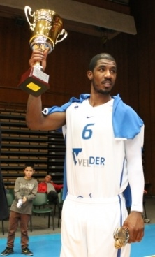 Harper Cup Final